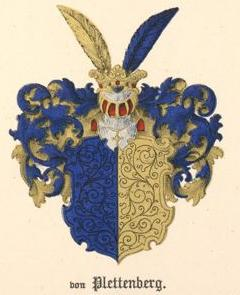 Coat of arms of Plettenberg family (baltic branch, inverted).